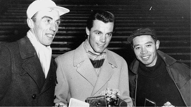 Stig Sollander, to the left, won Sweden's first Olympic medal in alpine skiing at the 1956 Winter Olympics. It was a bronze medal in slalom. Tony Sailer from Austria won the gold medal and Chiharu Chick Igaya from Japan won the silver medal.